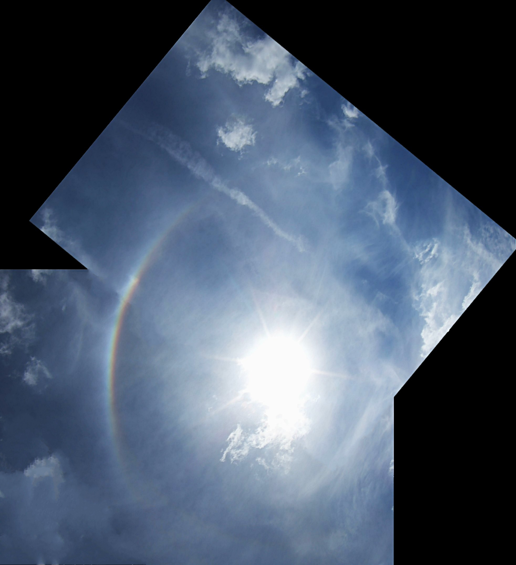 A composite picture showing a bright circumscribed halo surroundig a fainter 22° halo. A parhelic circle is going upward on the second image and includes a faint sundog.